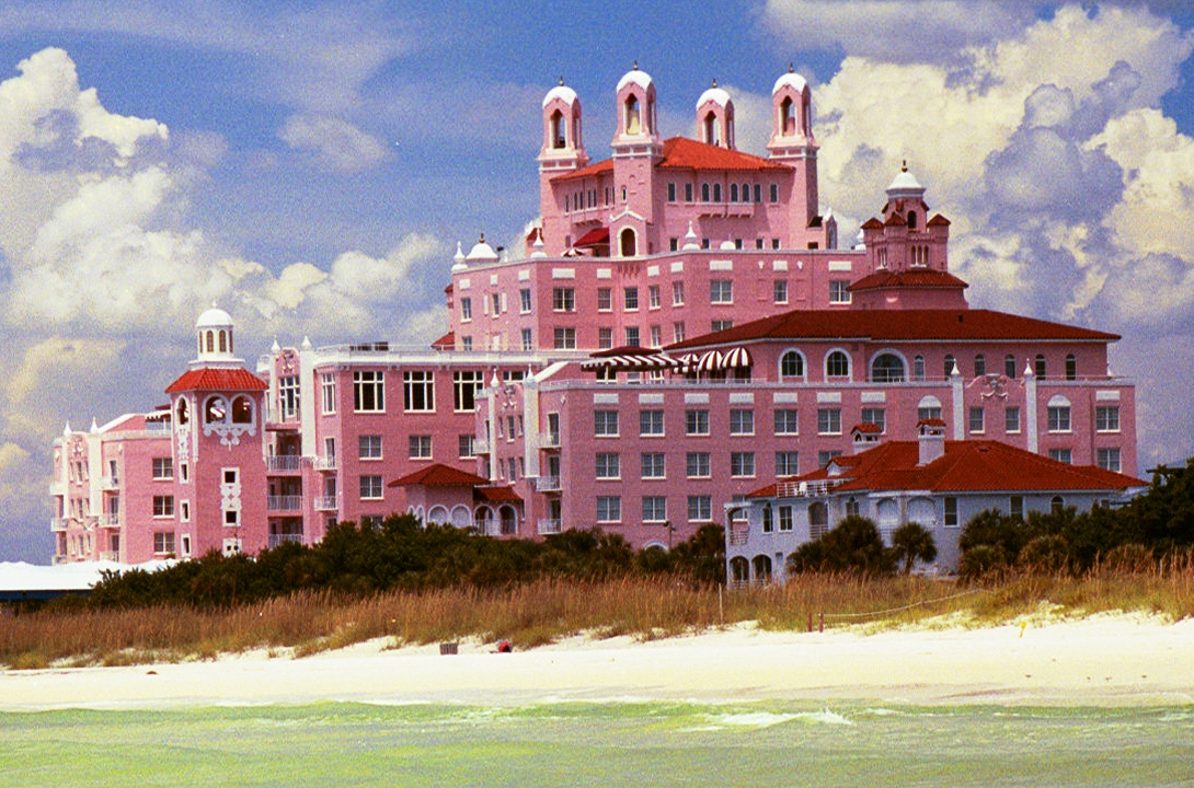 Don Cesar Resort, St Pete Beach, Saint Petersburg, Florida.